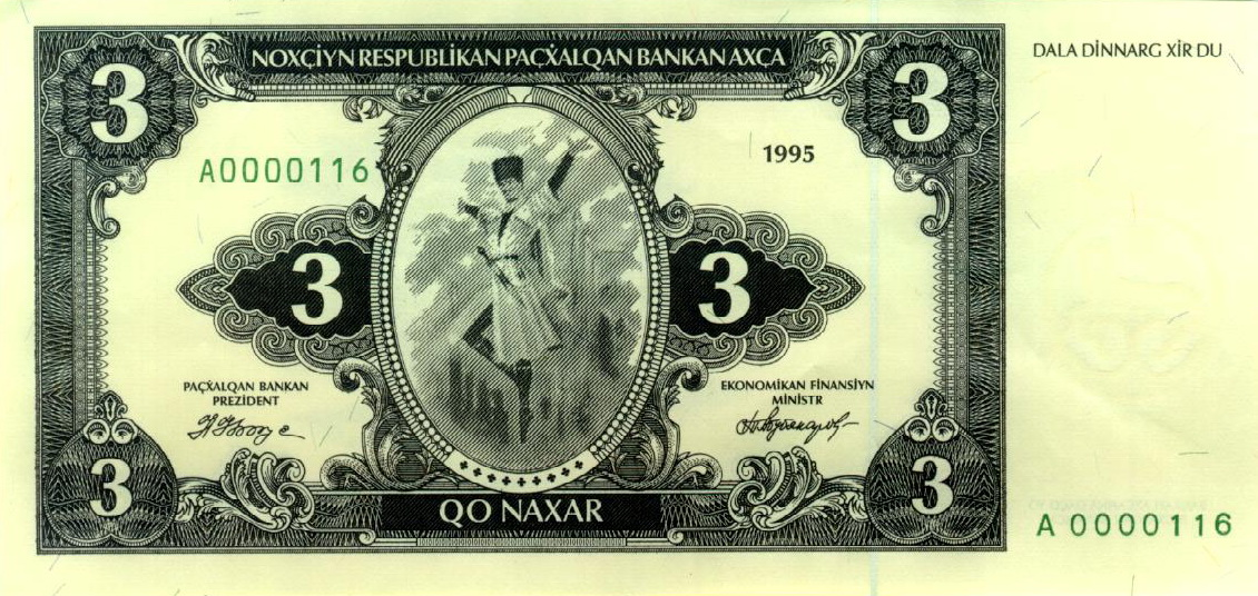 Chechen currency 3 naxar